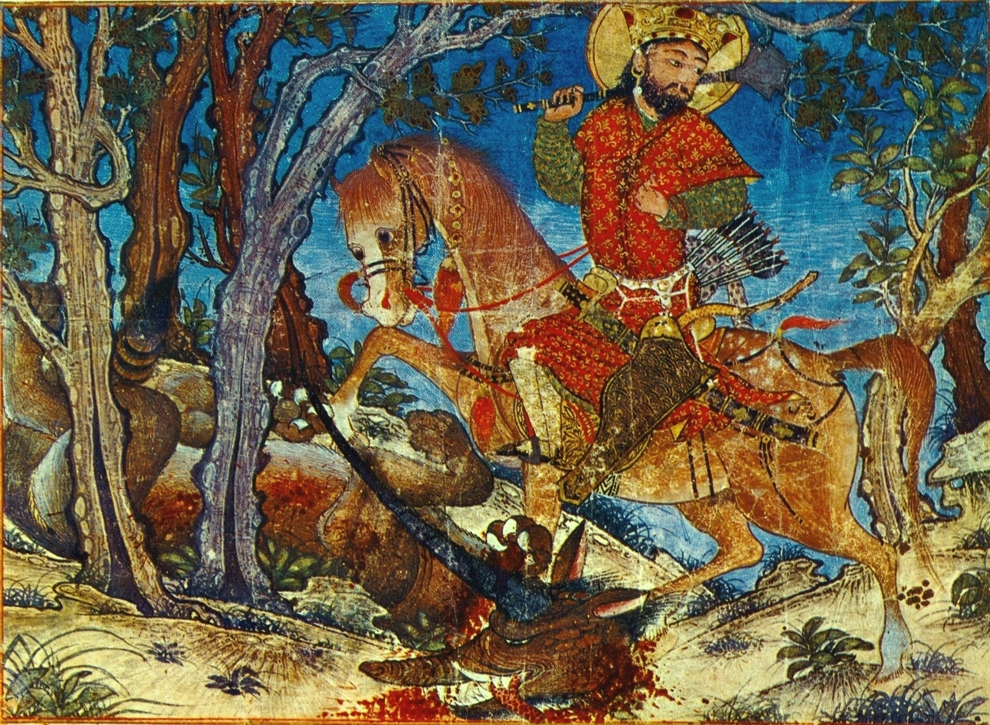 Illustration of the Great Mongol Shah Nama, Bahram Gur is fighting a lion